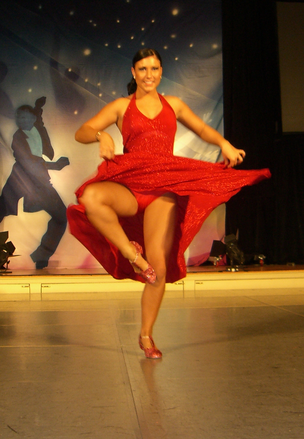 Jovana Ivanovic at the Jazzdance World Championships, Boston 2006. Choreography by Petra A. Budinger. Title: "The Red Shoes"